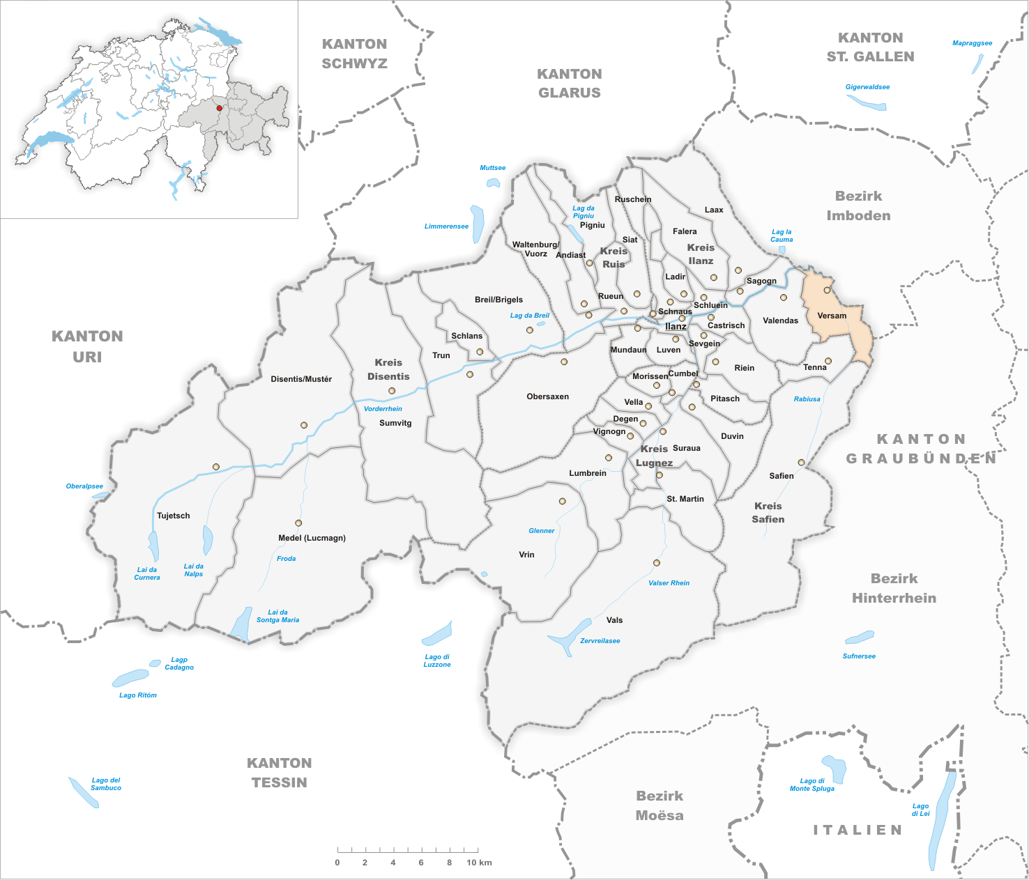 Municipality Versam